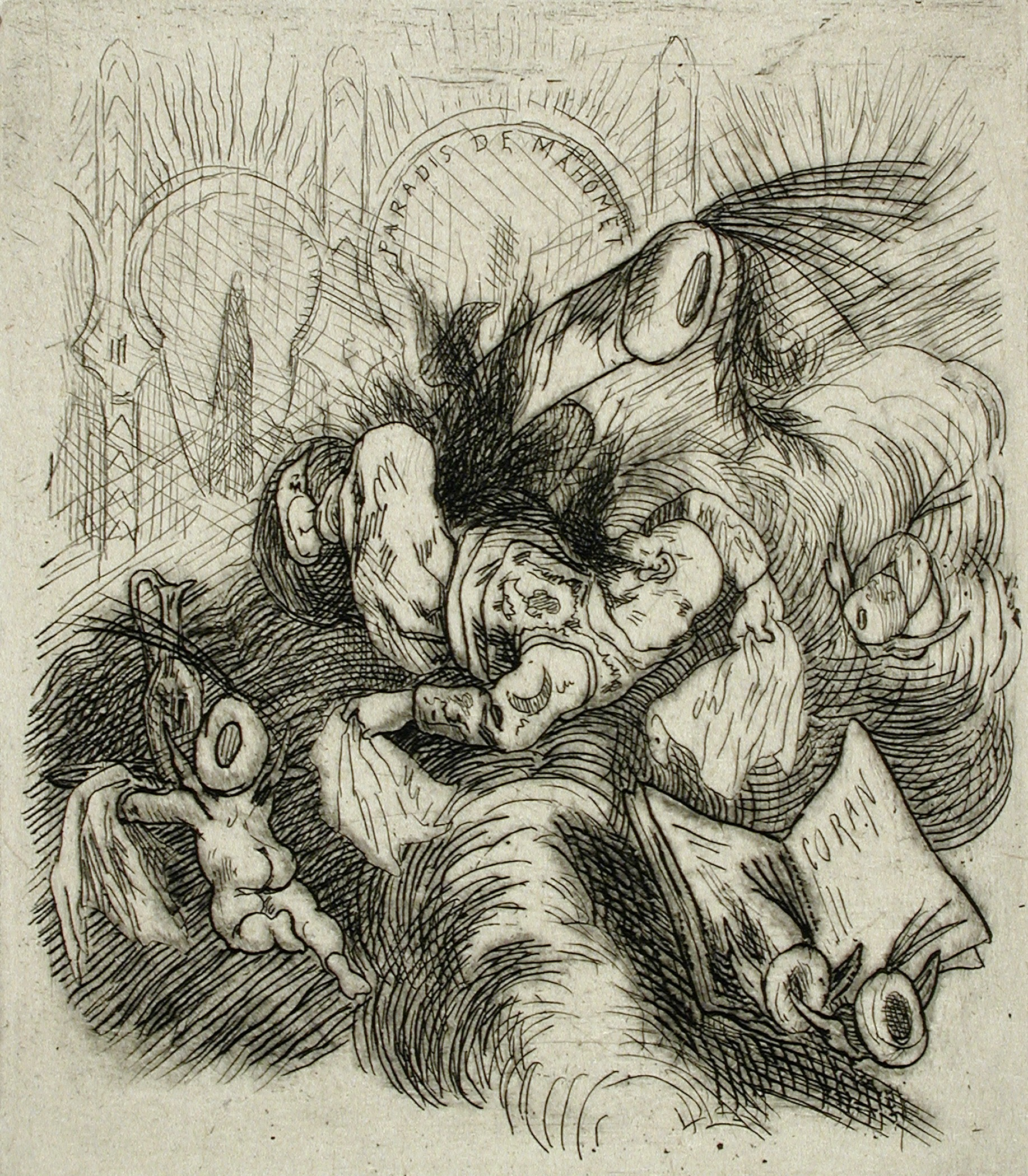 Belgium, 1867 Series: Tableaux des moeurs du temps Prints; etchings Etching on chine appliqué Gift of Michael G. Wilson (M.79.233.94) Prints and Drawings